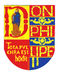 Coat of arms of Móstoles, Madrid, Spain.